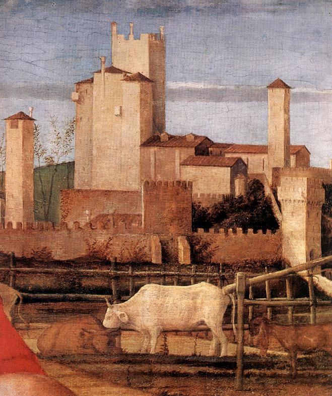 BELLINI, Giovanni Madonna of the Meadow (Madonna del Prato) Oil on canvas, transferred from wood, 67 x 86 cm National Gallery, London